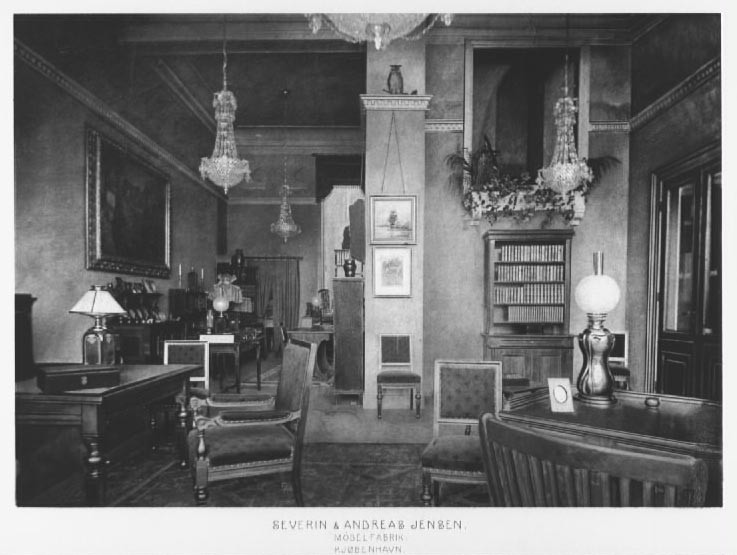 Interior of Severin & Andreas Jensen furniture factory (est. 1861) at Kongens Nytorv 19-21 in Copenhagen.